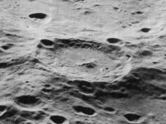 Oblique view of Langmuir, on the far side of the moon, facing west.